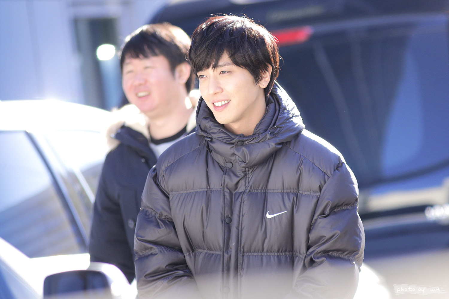 CNBLUE's Jung Yong-hwa after Inkigayo recording on February 1, 2015.